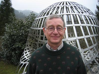 Picture of Prof. Moshe Jarden at the Oberwolfach Research Institut for Mathematics